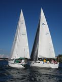 Monday night racing at IYC